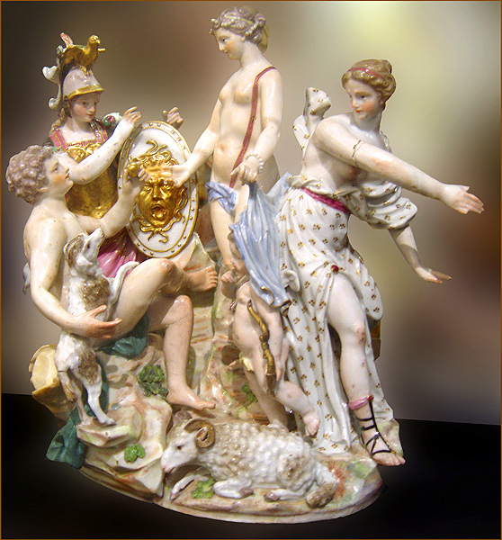 Judgement of Paris, porcelain, Capitoline Museums, Rome, see here. Modeller Filippo Tagliolini. Strictly, this is NOT "Capodimonte porcelain" but Naples porcelain by the Naples Royal Porcelain Manufactory (Real fabbrica delle porcellane di Napoli) or Real Fabbrica Ferdinandea, active 1771-1806